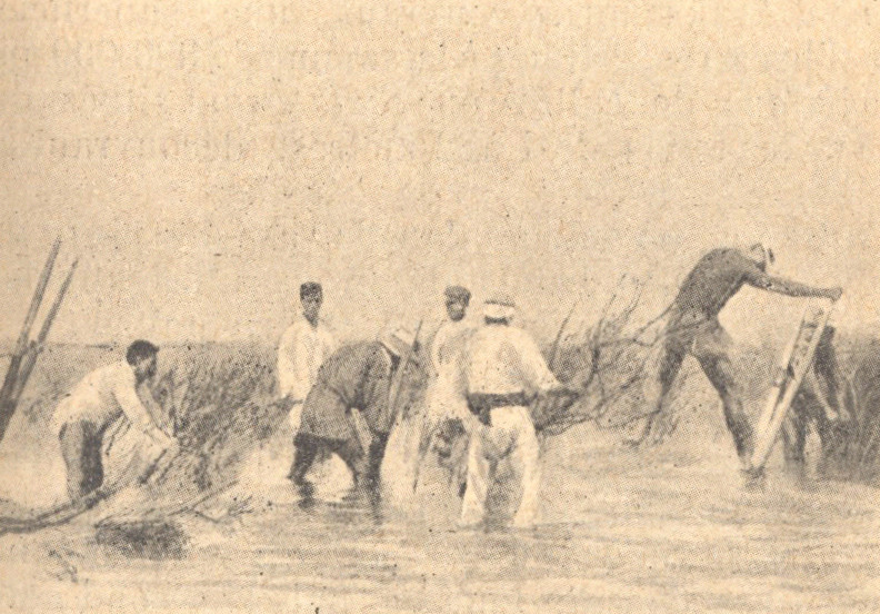 Subject: Algae--Propagation Tag: Aquatic Botany